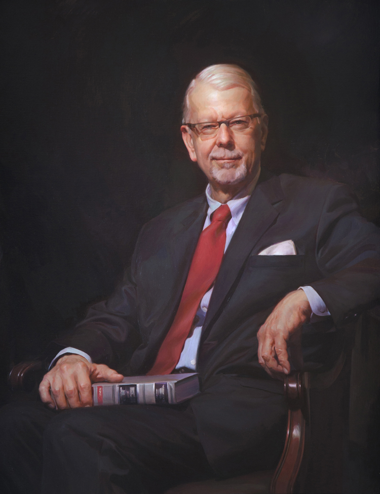 Judge Vaughn Walker official portrait art by Scott Johnston, oil on linen, 36x28-inches, collection of the United States District Court of Northern California, San Francisco